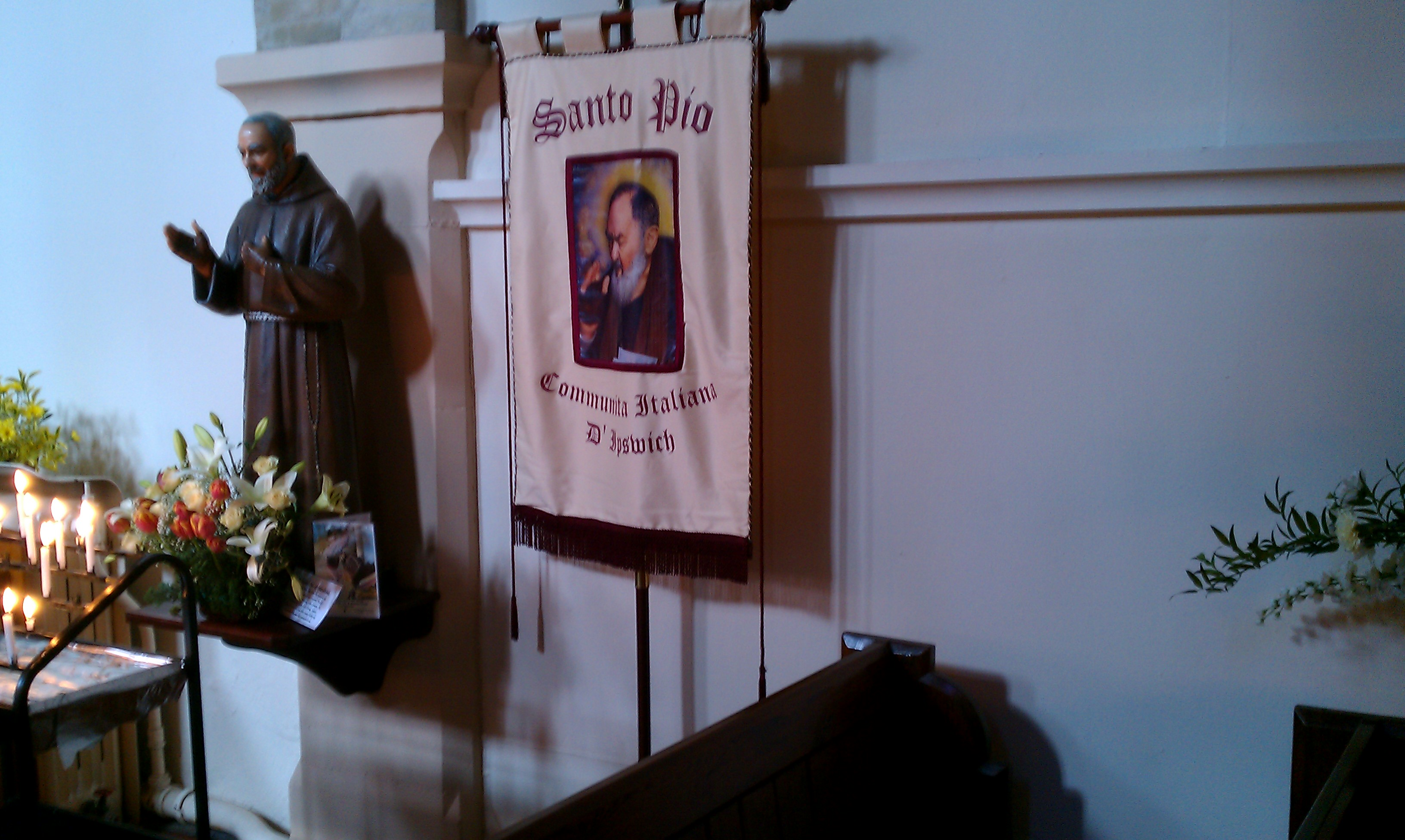 Padre Pio statue, together with banner of Ipswich Italian banner